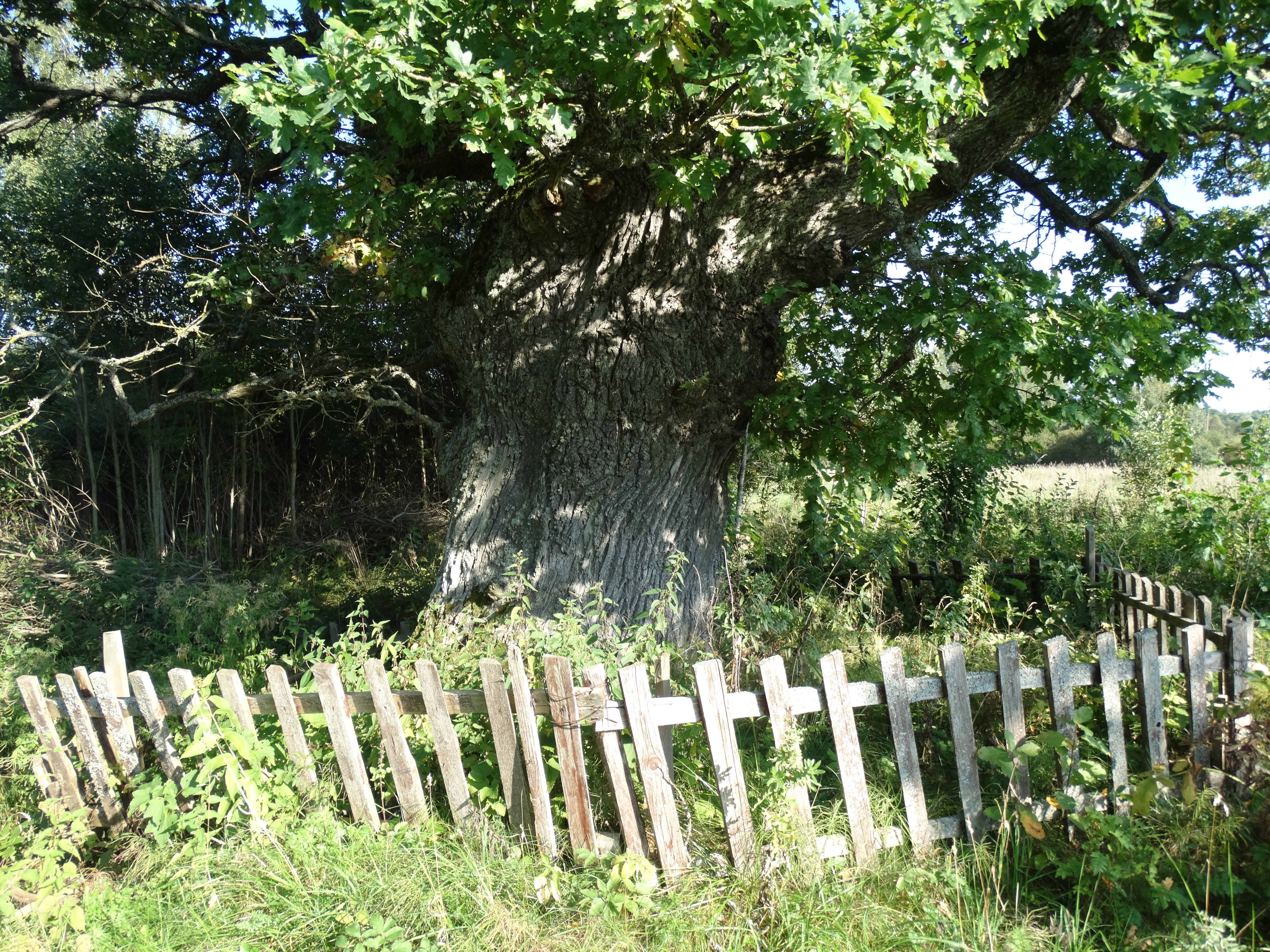 Imbradas Oak, Zarasai district, Lithuania